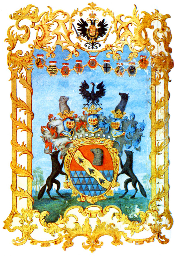 Alexander Sergeevich Stroganov count diploma, issued by the Holy Roman Emperor in 1761. Small coats of arms of the Electors of the Holy Roman Empire at the top.